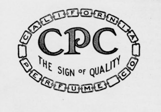 This is the CPC Chain Trademark ~1910-1933 from the now Avon Products company.